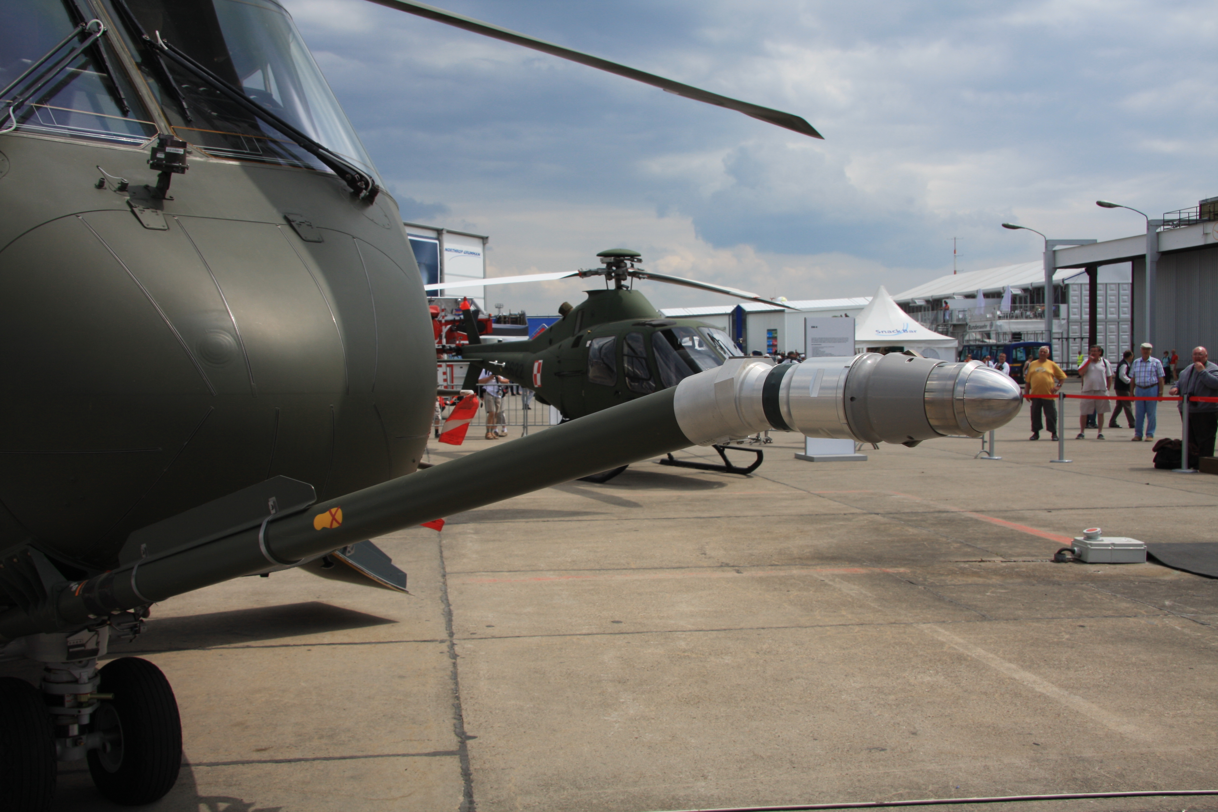 A probe for aerial refueling on an AgustaWestland AW101 (picture taken during the International Air and Space Exhbition)